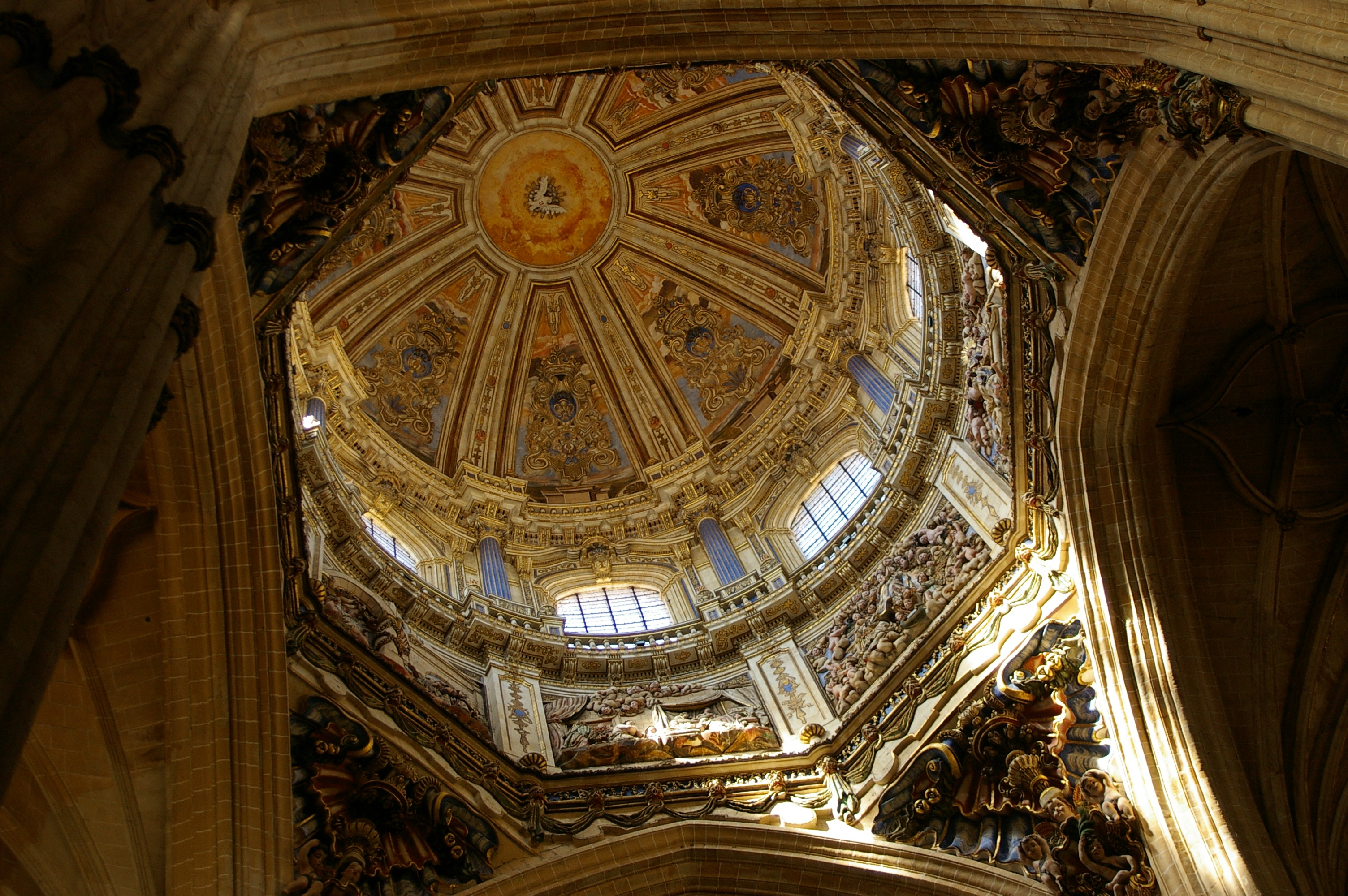 Chatedral of Salamanca. Internal view of the cupola.